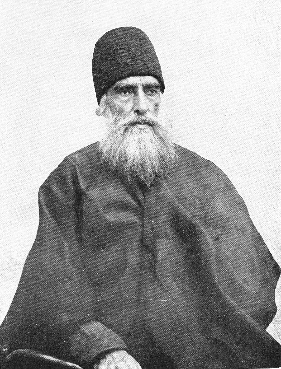 Ali Reza Khan Azod al-Molk, Regent of Iran